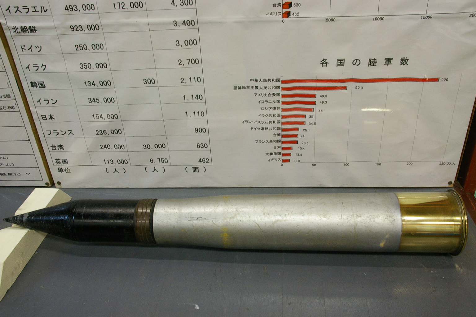 105mm HEAT-MPfor type74 tank.